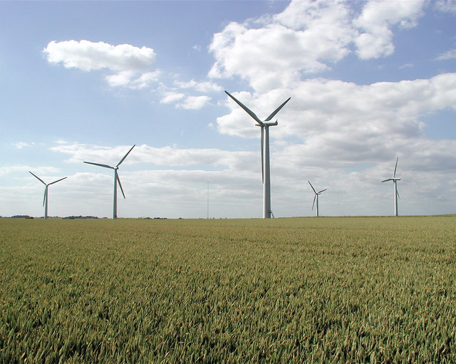 Out Newton Wind Farm, Out Newton, East Riding of Yorkshire, England.